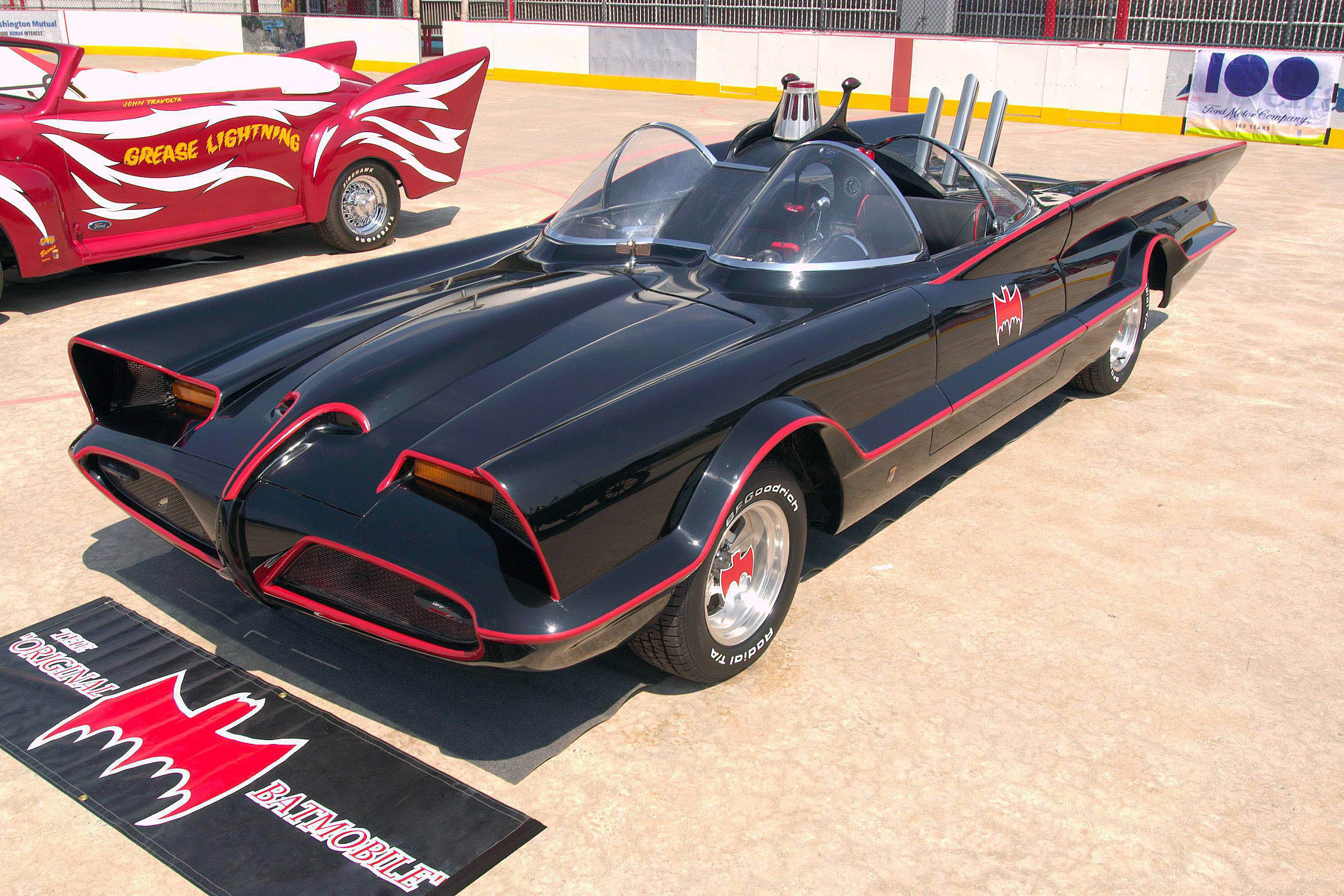 Batmobile. Special presentation of cars used in movies and television, New York.